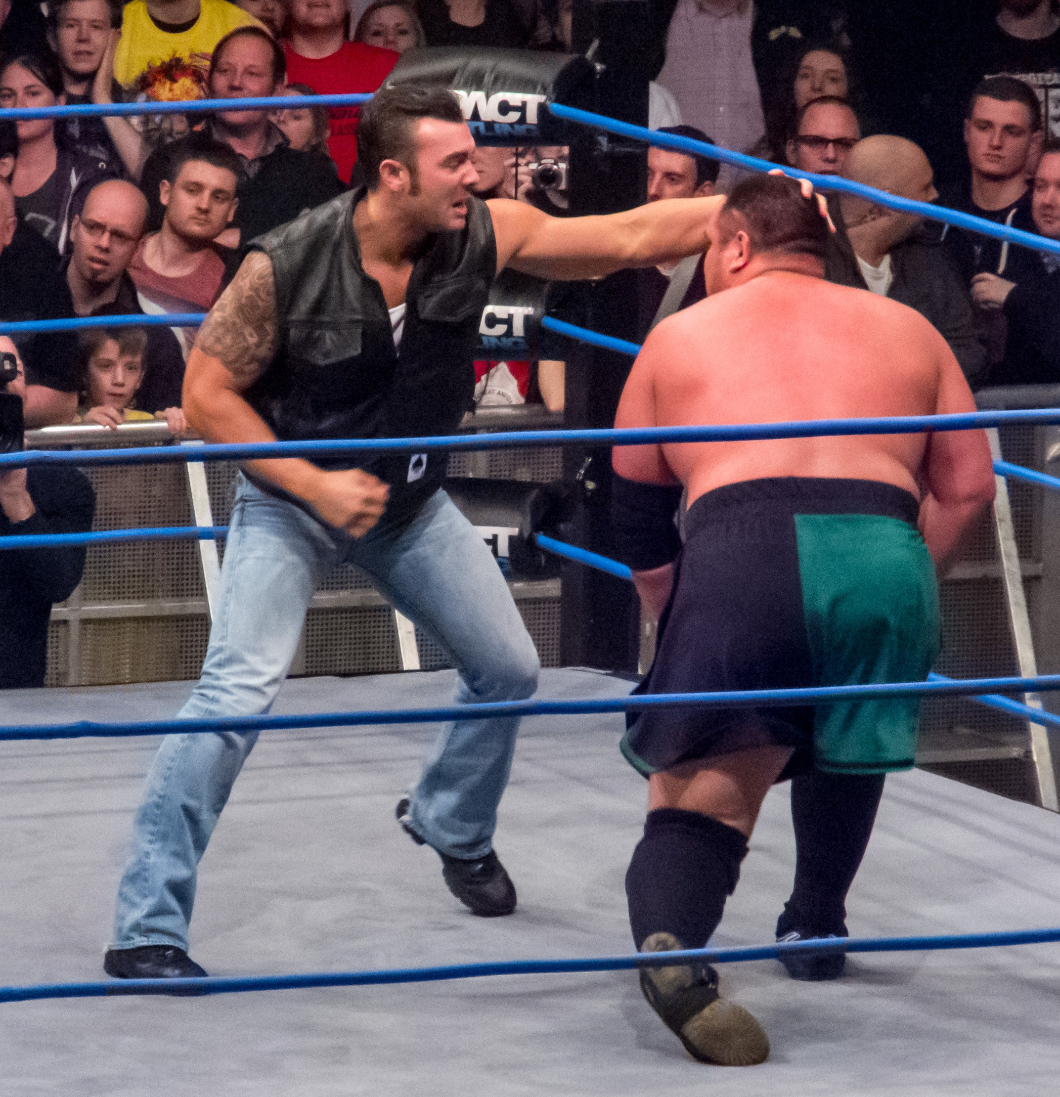 Garrett Bischoff attacks Samoa Joe at the Impact! TV Tapings in Wembley, England on January 26, 2013.